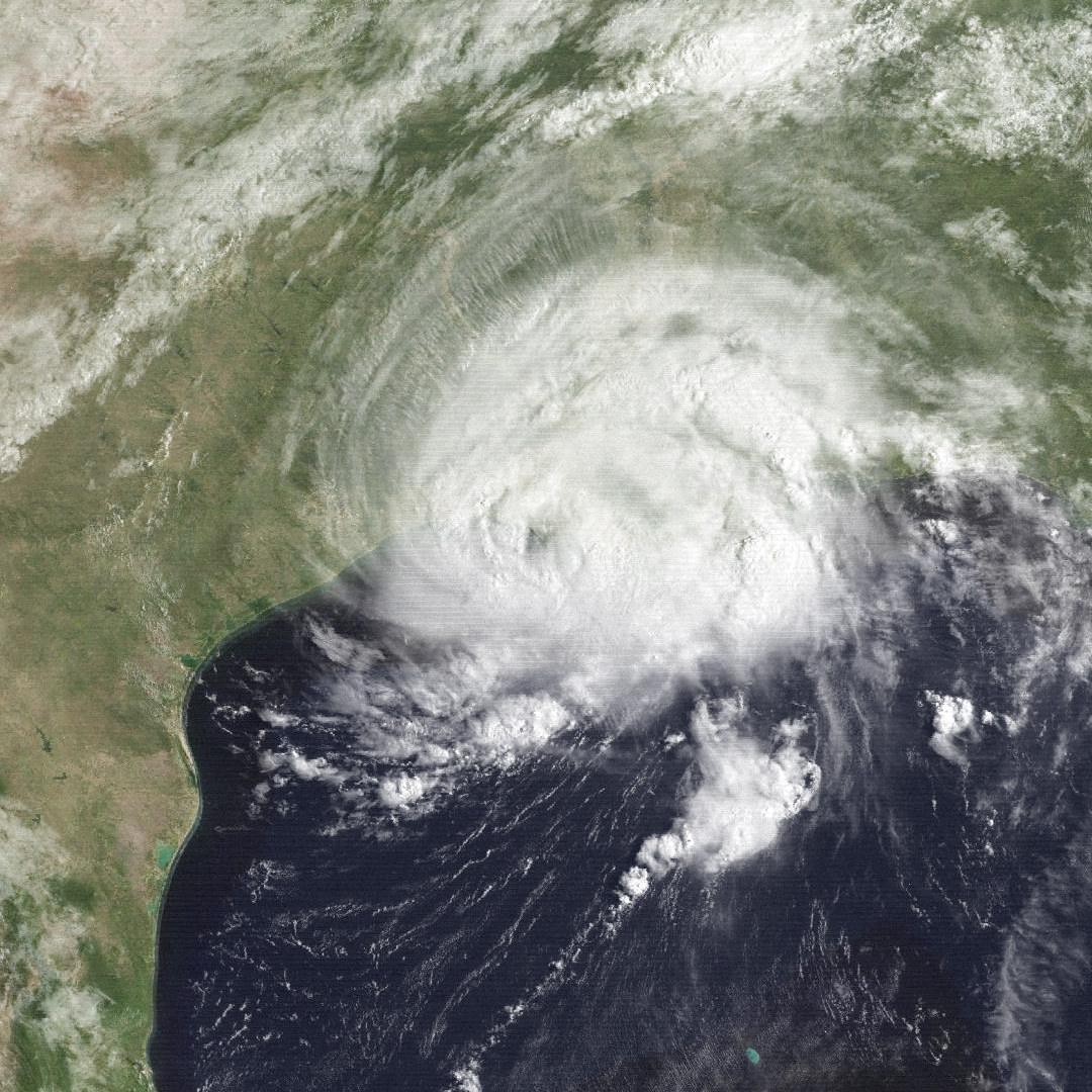 Hurricane Danny shortly at peak intensity just off the coast of Louisiana on August 15, 1985